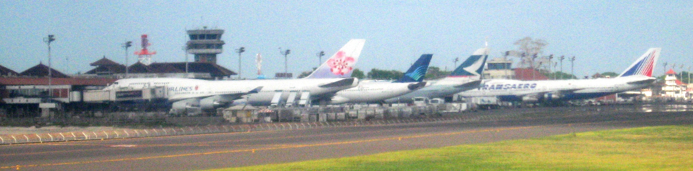 Ngurah Rai International Airport of Denpasar, Bali